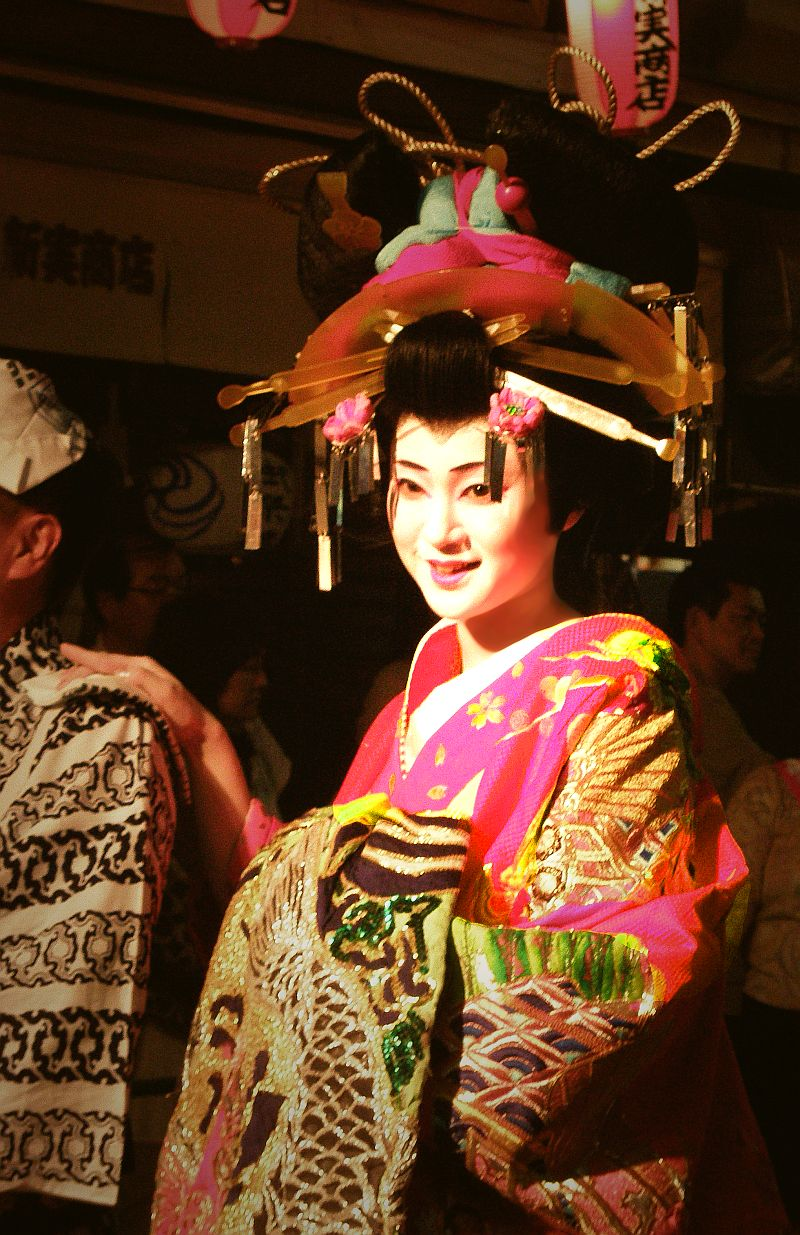 What's Oiran?Oiran